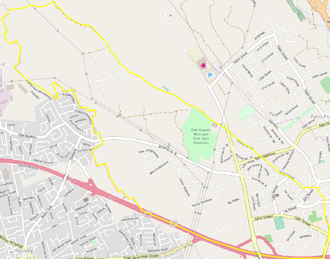 Map of Saint Nicholas (Kato Polemidia).